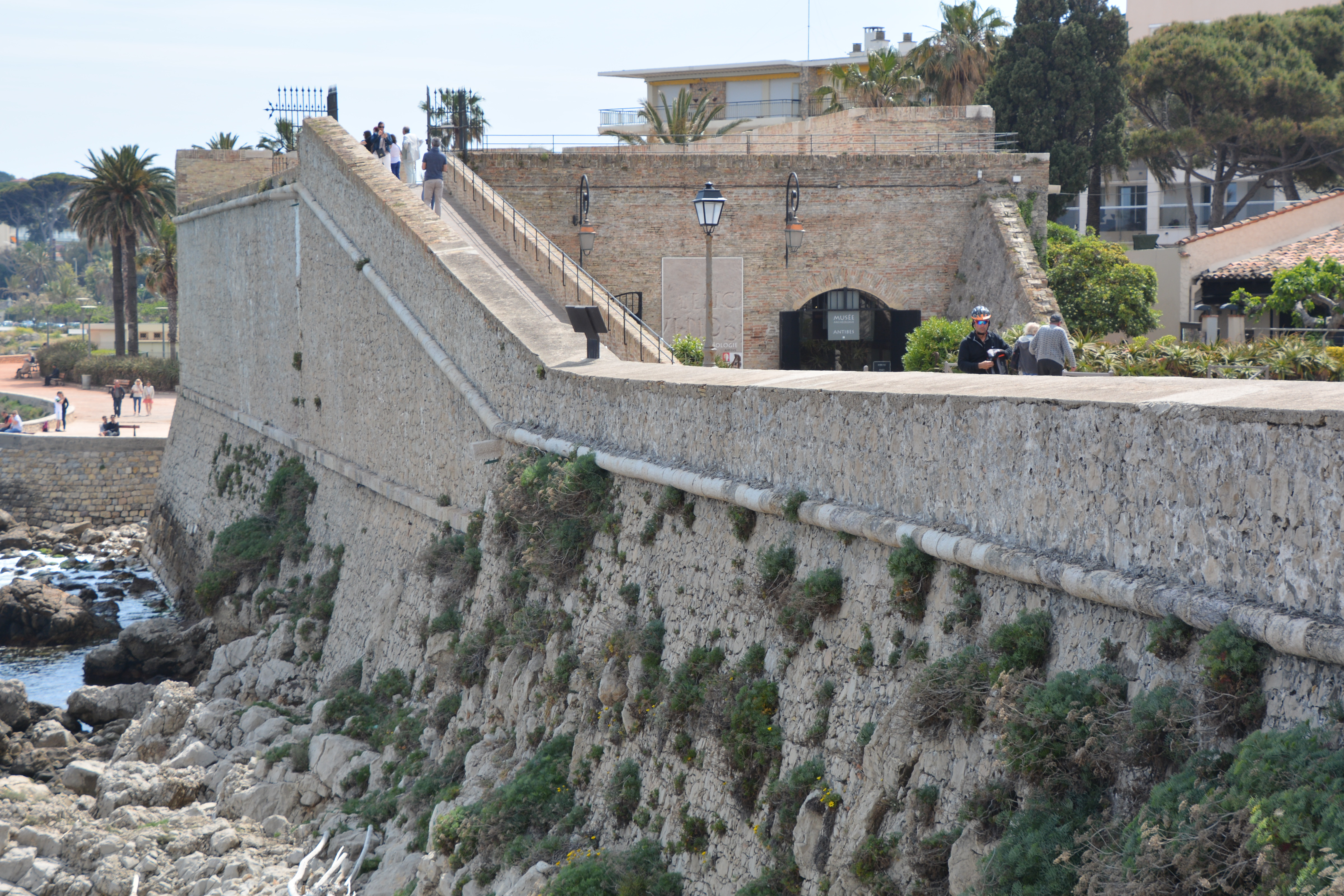 Bastion Saint-André, Antibes, with Musée d'archéologie d'Antibes